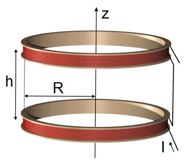 Helmholtz coil